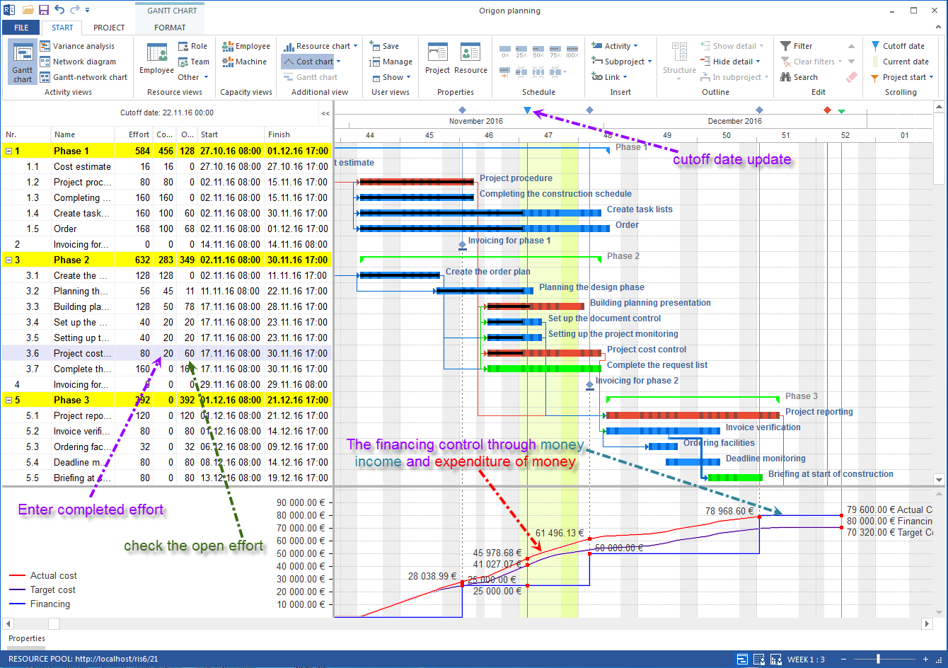 Rillsoft Project showing Project controlling